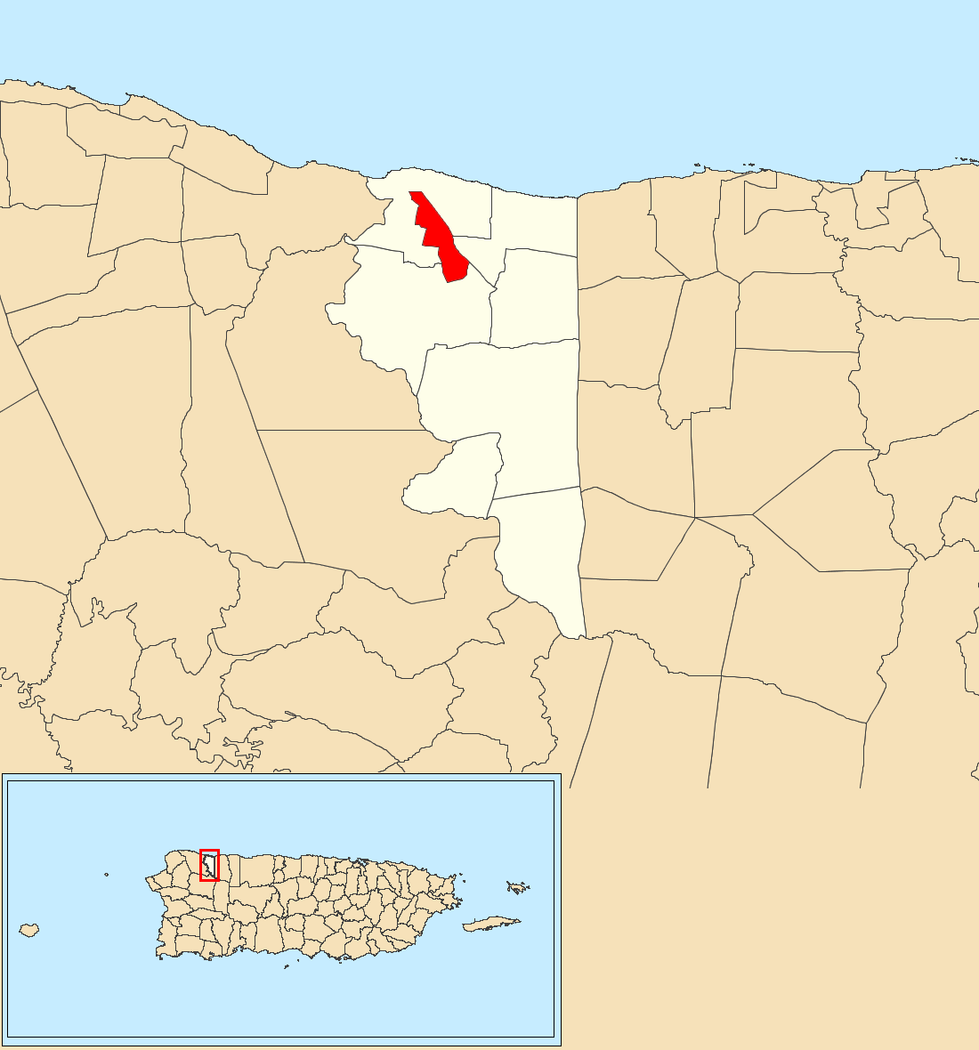 Quebradillas barrio-pueblo, Quebradillas, Puerto Rico locator map